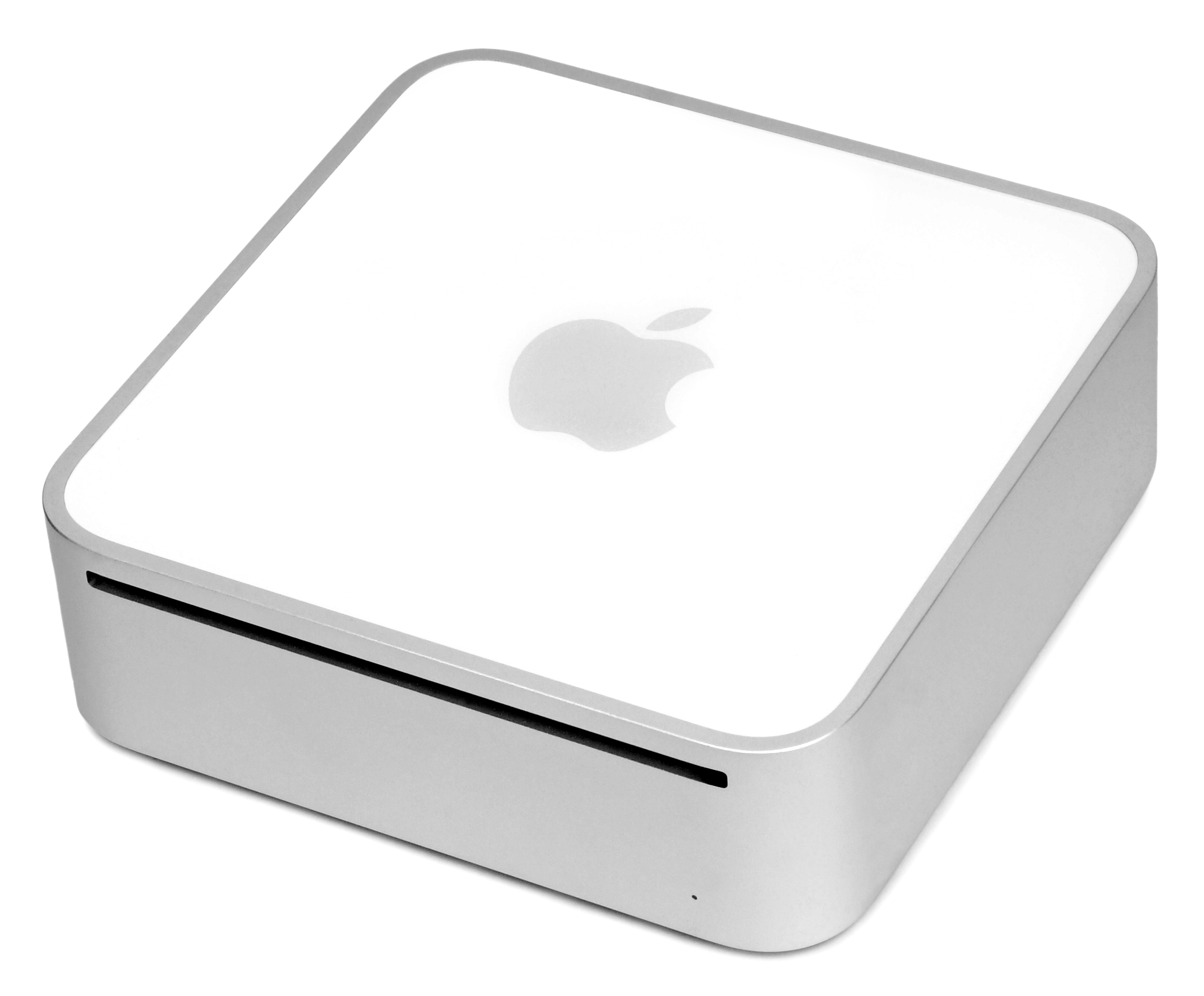 A first generation design of the Mac Mini by Apple.